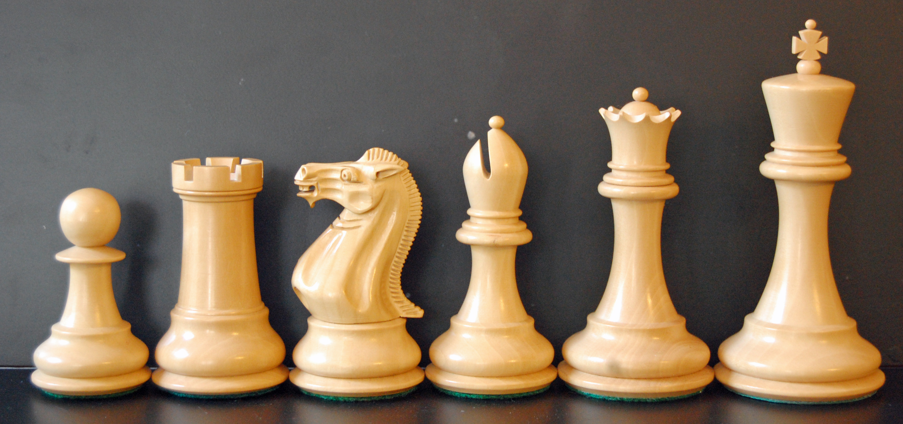 Photo of my House of Staunton "Marshall" chess set - same style as Jaques "Millennium" set.